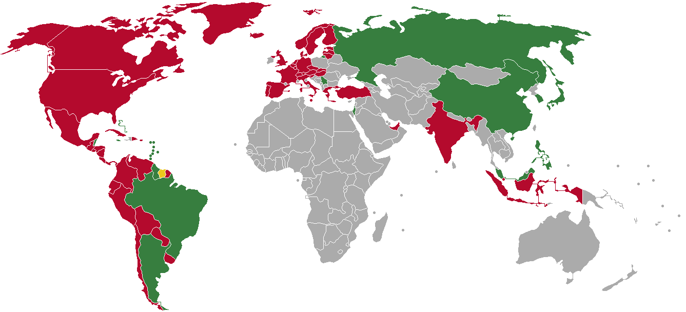 Visa policy of Suriname Suriname Visa free Tourist card on arrival Visa required in advance